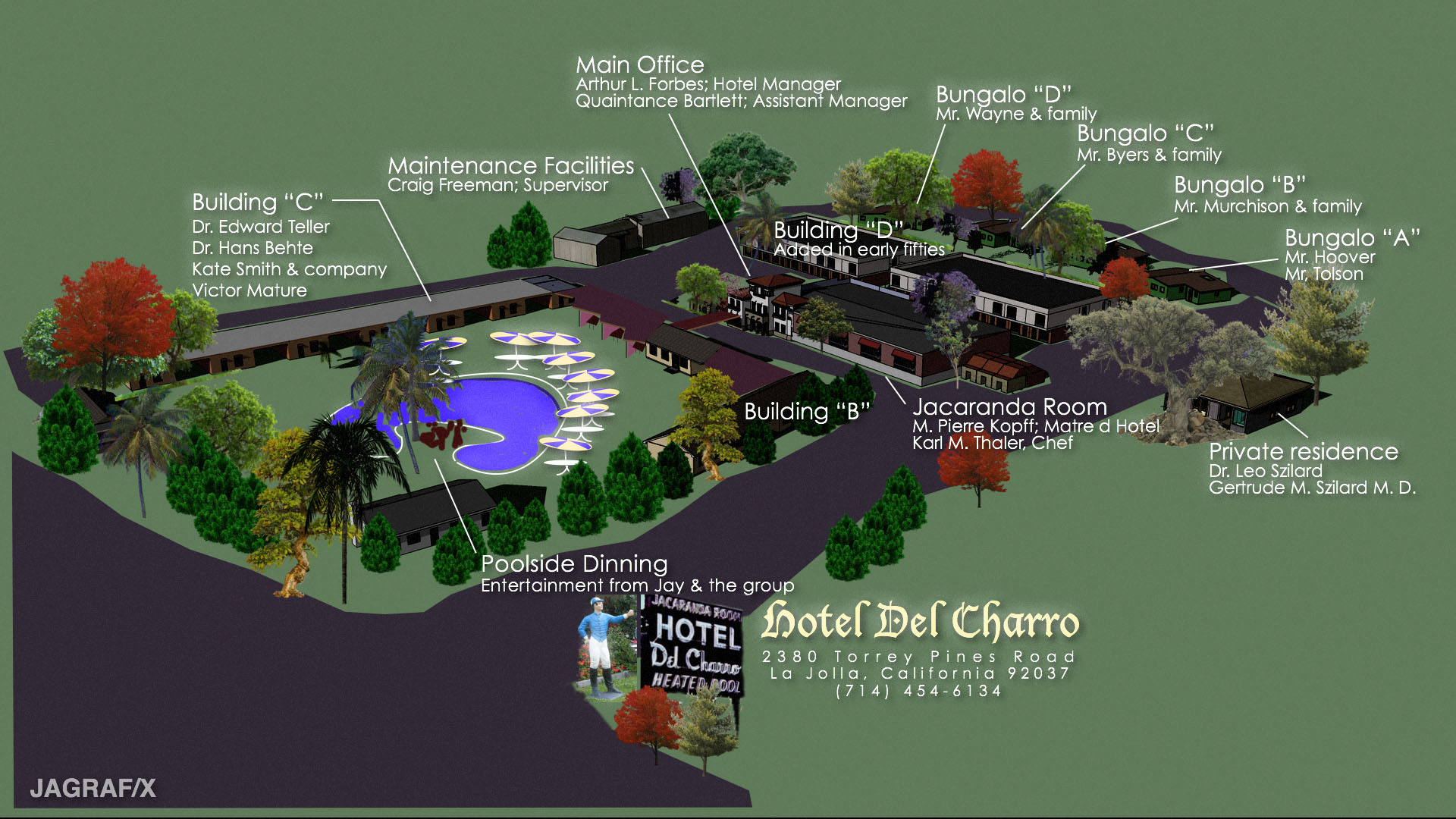 The La Jolla hotel of mid-twentieth century fame near the Del Mar Racetrack. The original adobe structure was called the La Jolla Stables which comprised the original row of rooms and the central offices. This sketch from the illustrator's memory -- circa 1967 created in August 2013. JAGRAF/X